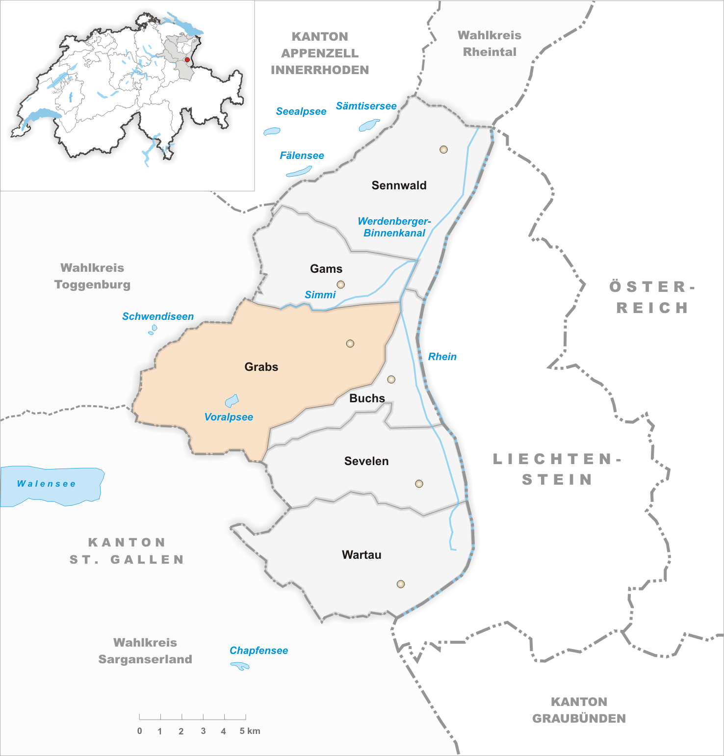 Municipality Grabs